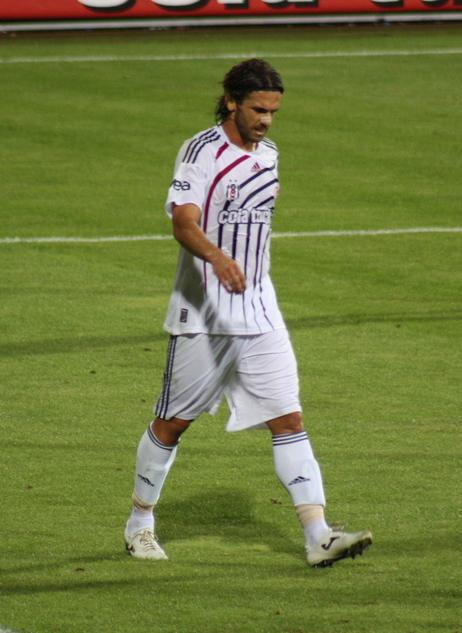 İbrahim Kaş during Beşiktaş-Gaziantepspor match, 28.08.2009.